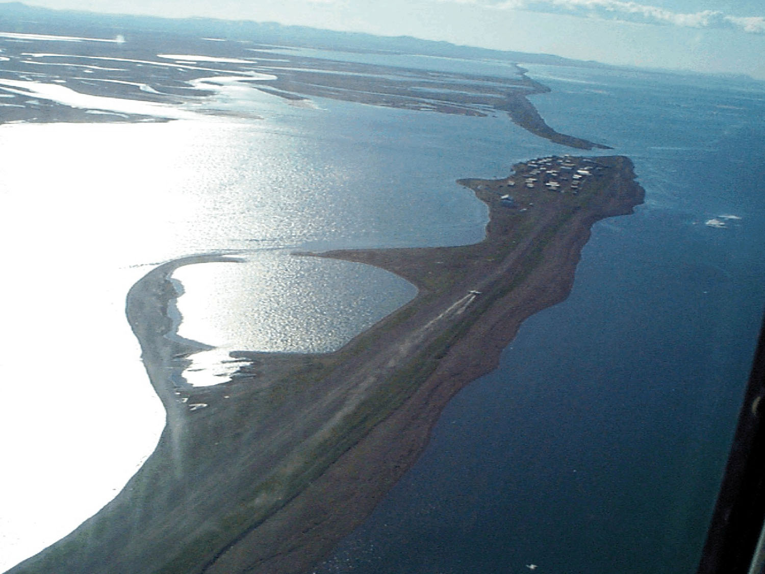 Aerial view of Kivalina, Alaska, USA. View is to the southeast.